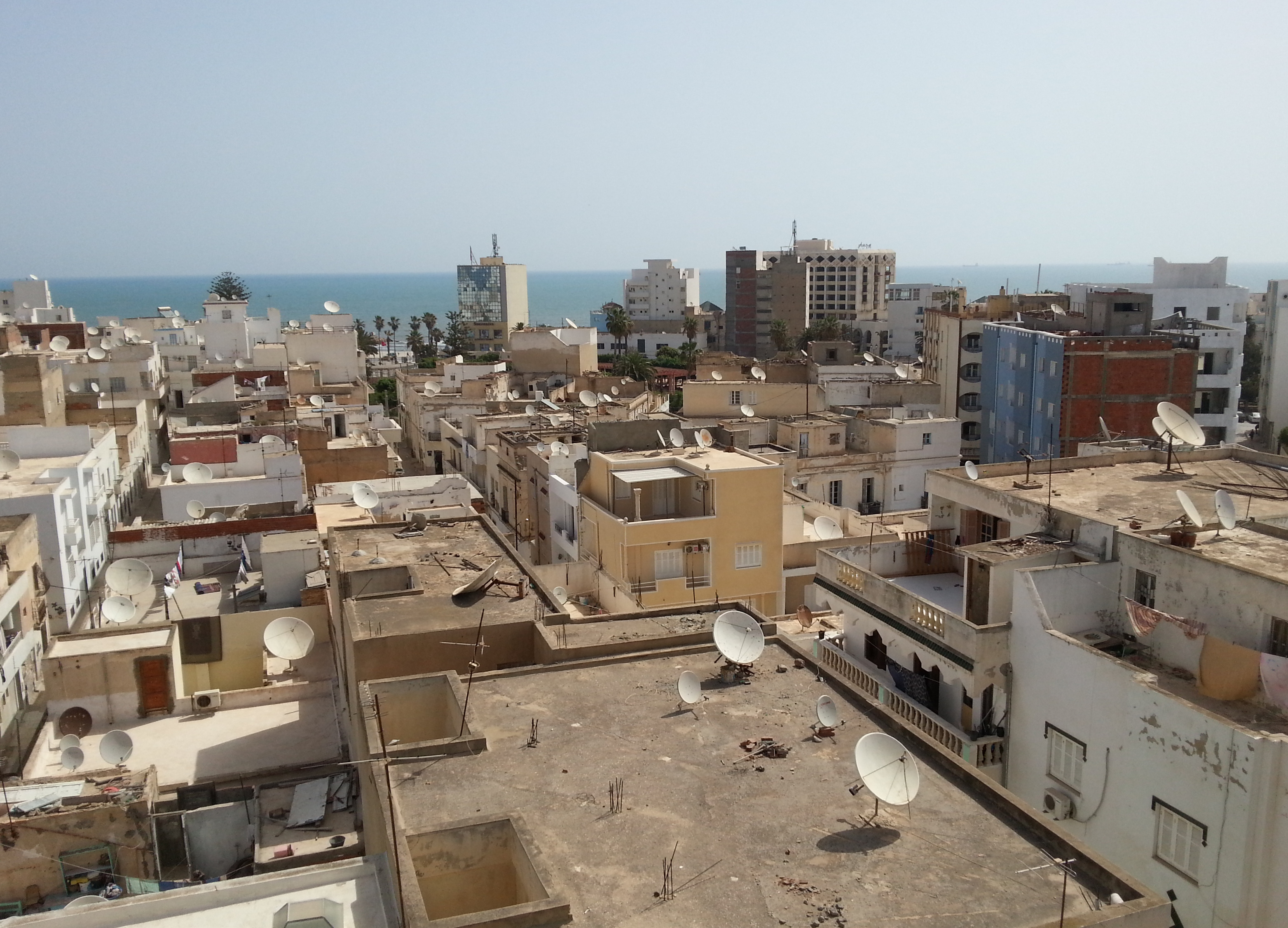 A high view of Gabadji, Sousse, Tunisia